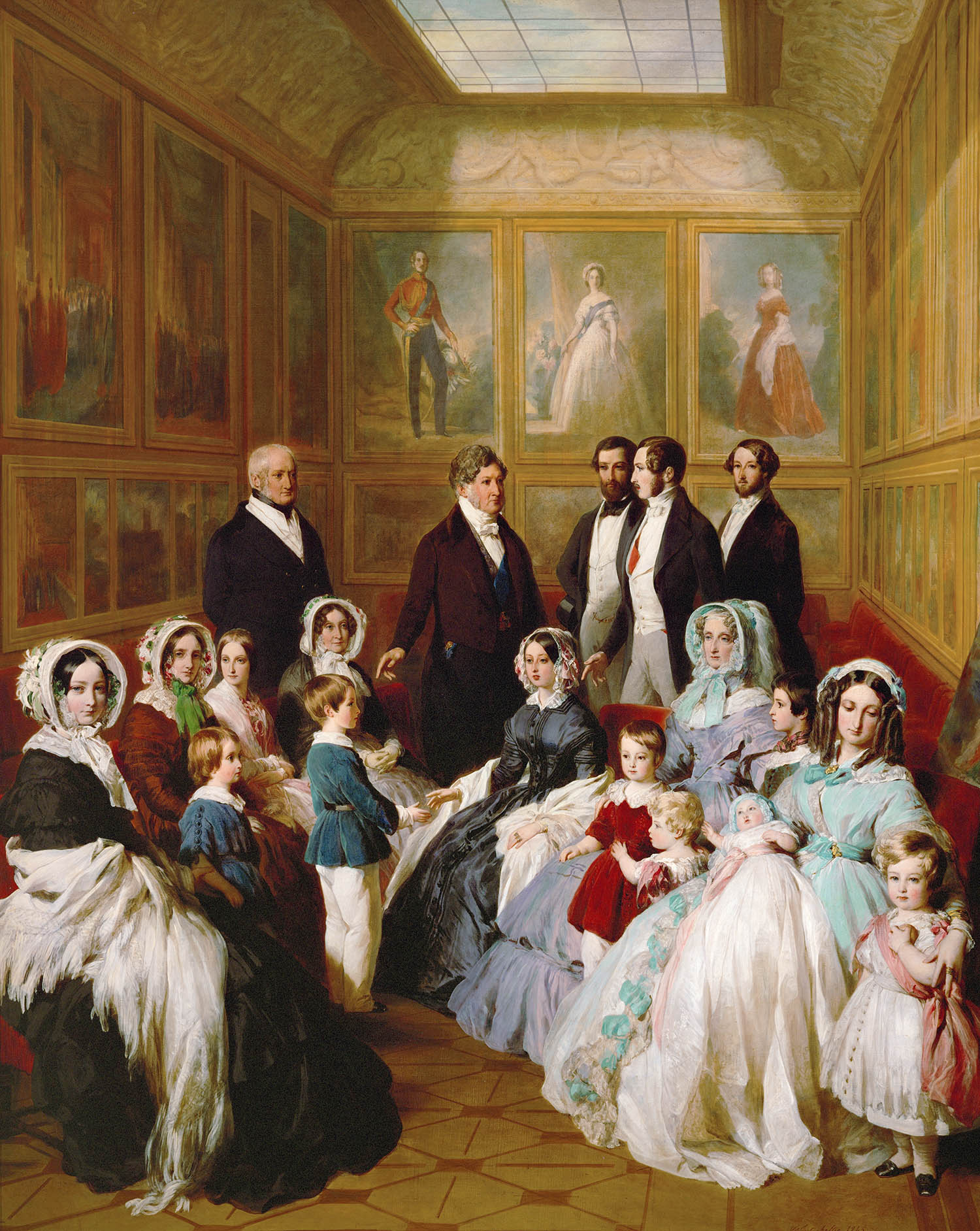 Queen Victoria and Prince Albert with the family of King Louis Philippe of France